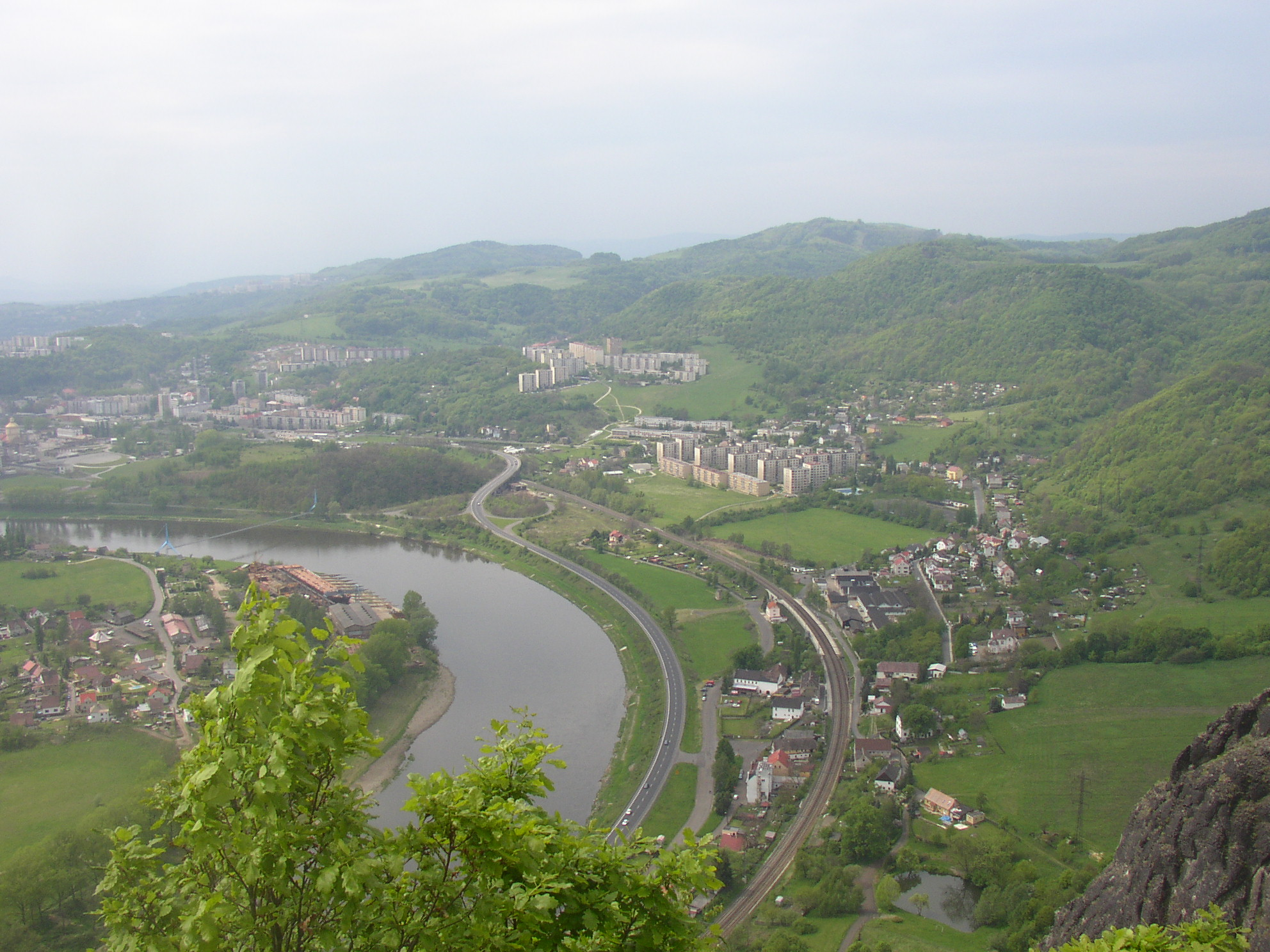 Mojžíř, a part of Ústí nad Labem city, Czech Republic, as seen from the east, from Kozí vrch hill (379 m). Neštěmice, another part od Ústí nad Labem can be seen in the left background.